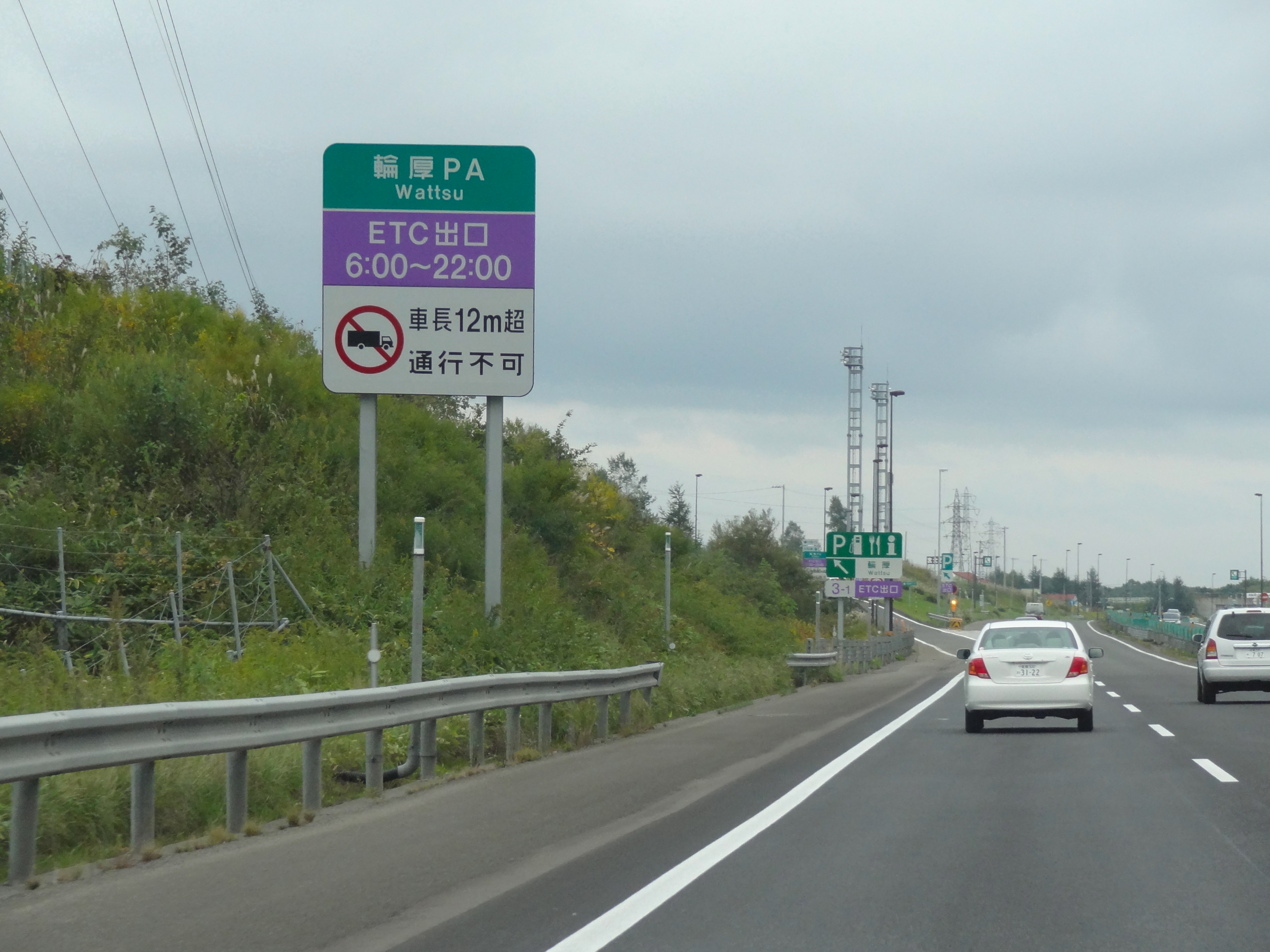 Sign for Wattsu Parking Area and Wattsu Smart Interchange on the Hokkaido Expressway